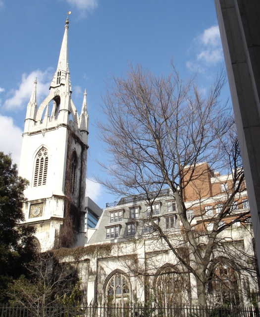 St Dunstan-in-the- East